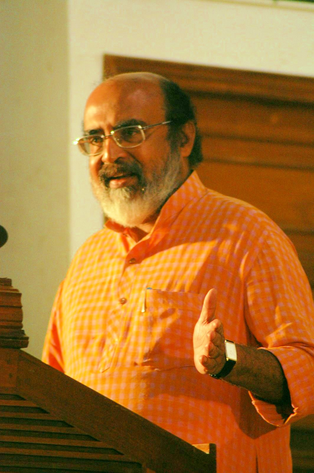 T. M. Thomas Isaac (born 1952, Kottapuram near Kodungalloor, India) is a central committee member of the Communist Party of India (Marxist)